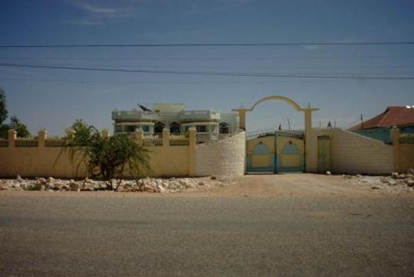 A residential area in Burco, situated in the northwestern Somaliland region of Somalia.